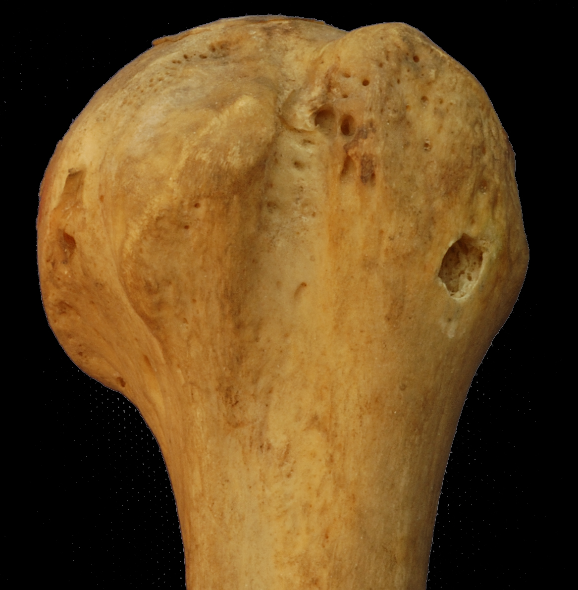 Photograph of anterior aspect of left human humerus (slightly lateral to anterior, in retrospect). Note that the hole in lateral aspect of humerus (on the right in the image) is artificial (used for articulating the skeleton). Taken with Nikon D50 digital camera. Keywords: Human bones, bone, humerus.